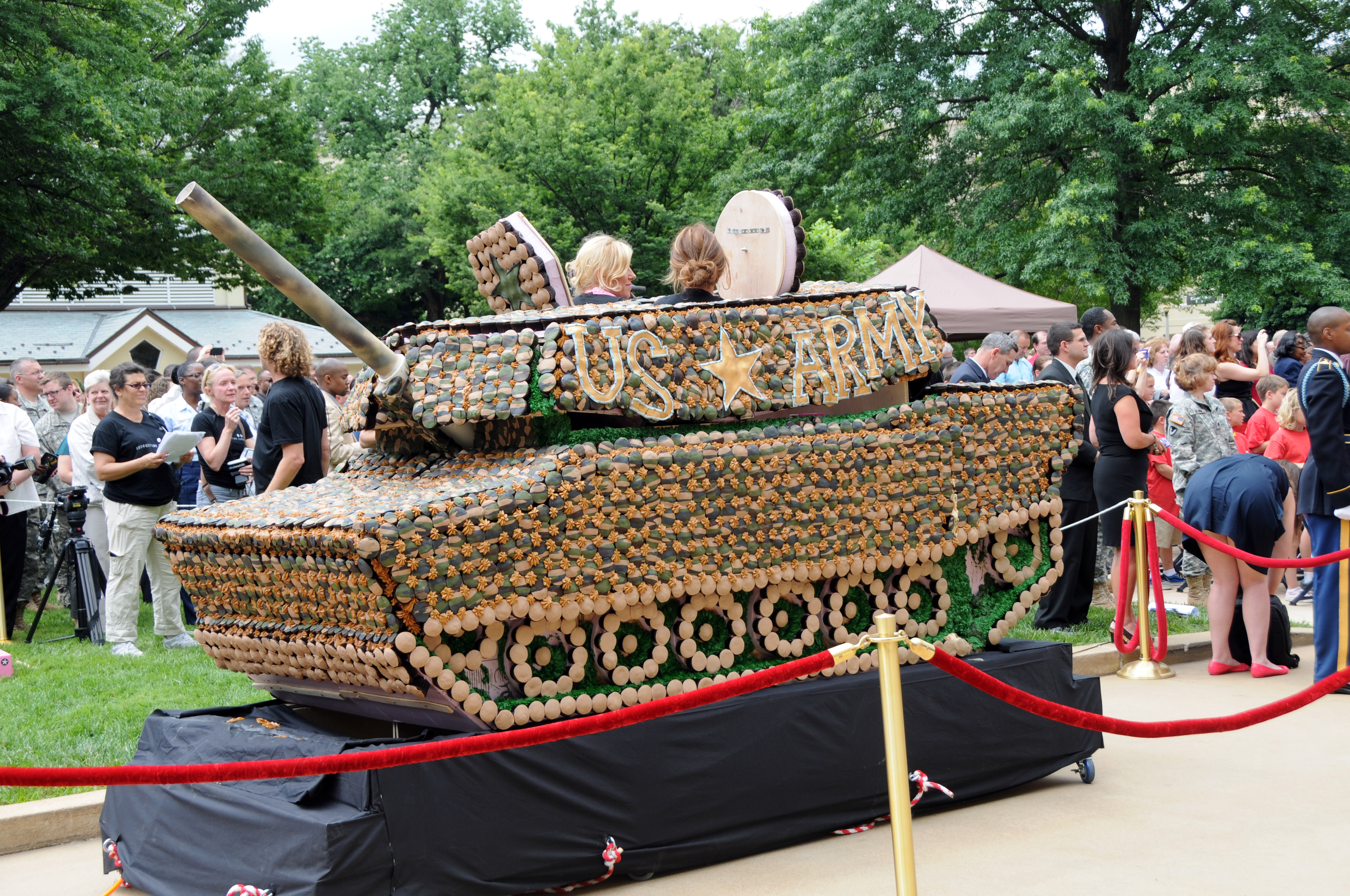 A cupcake Abrams tank, made by Georgetown Cupcake, stood in the Pentagon courtyard, June 14, 2012, as part of the Army birthday celebration there. The tank cake was created by local Washington, D.C., bakery Georgetown Cupcake. It was built from 5,000 mocha fondant and buttercream cupcakes and weighed around 2,500 pounds, according to the bakery's founders, Sophie LaMontagne and Katherine Kallinis.